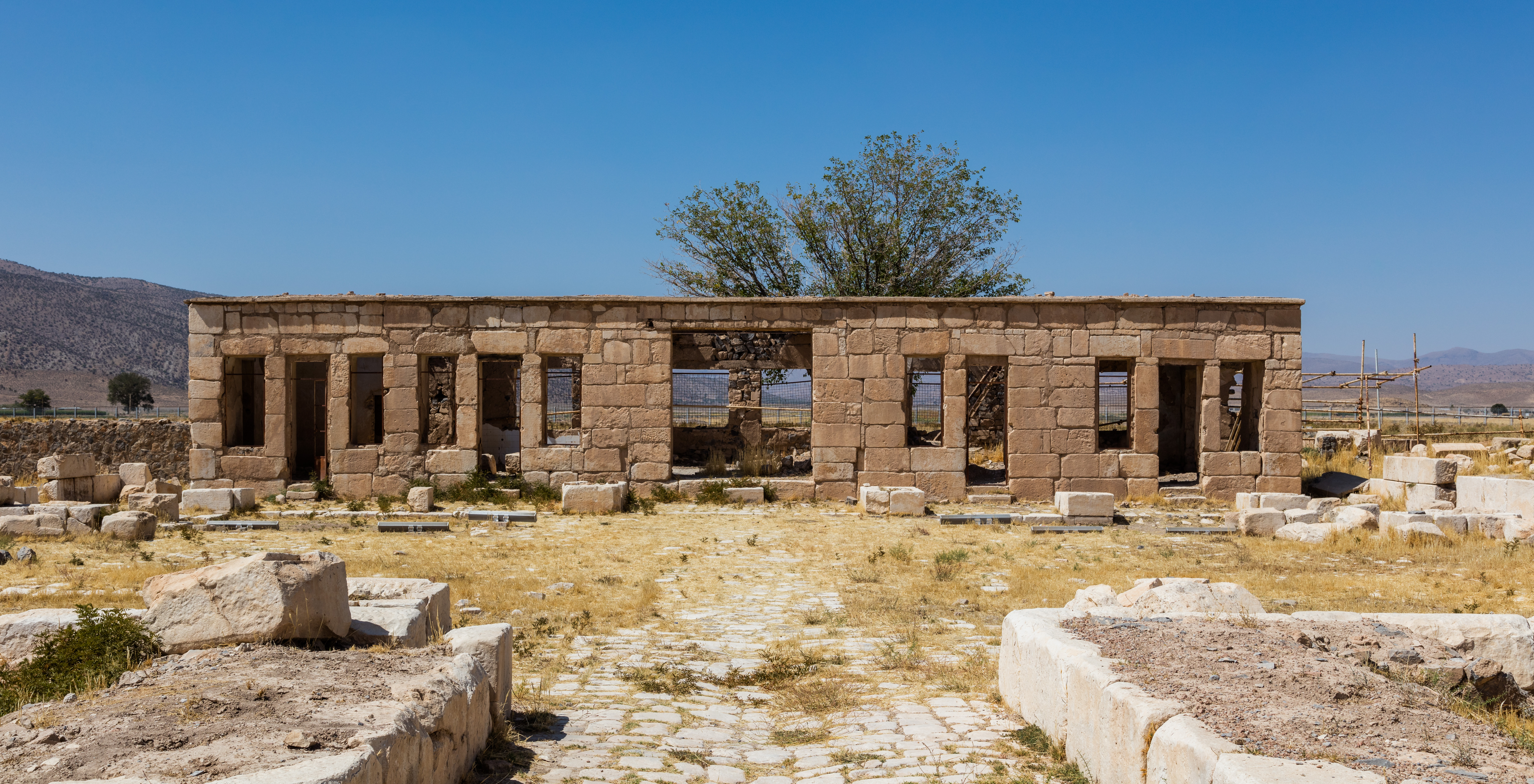 Mozafari Caravanserai at Pasargadae, Iran